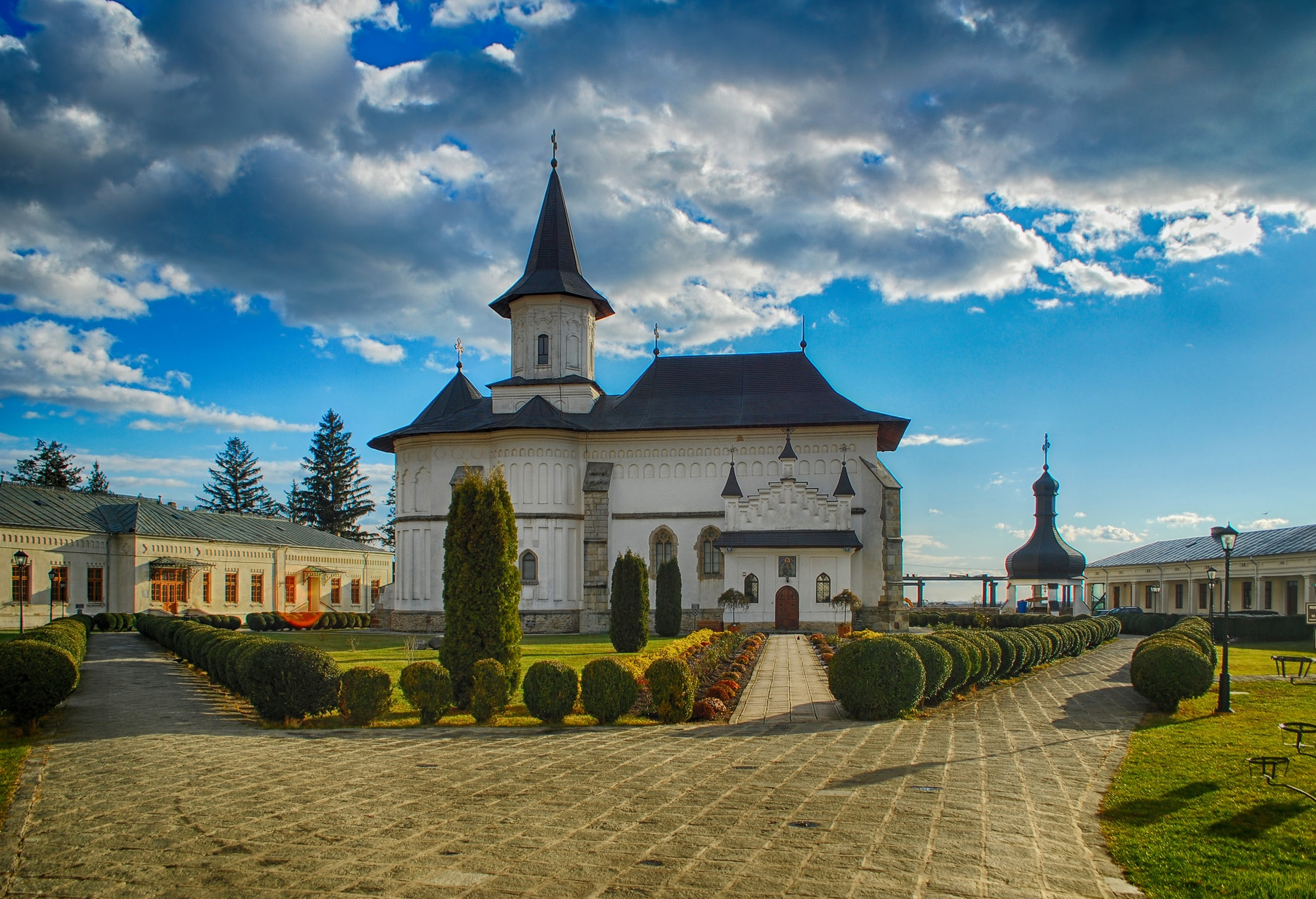 Episcopal cathedral in Roman, Romania